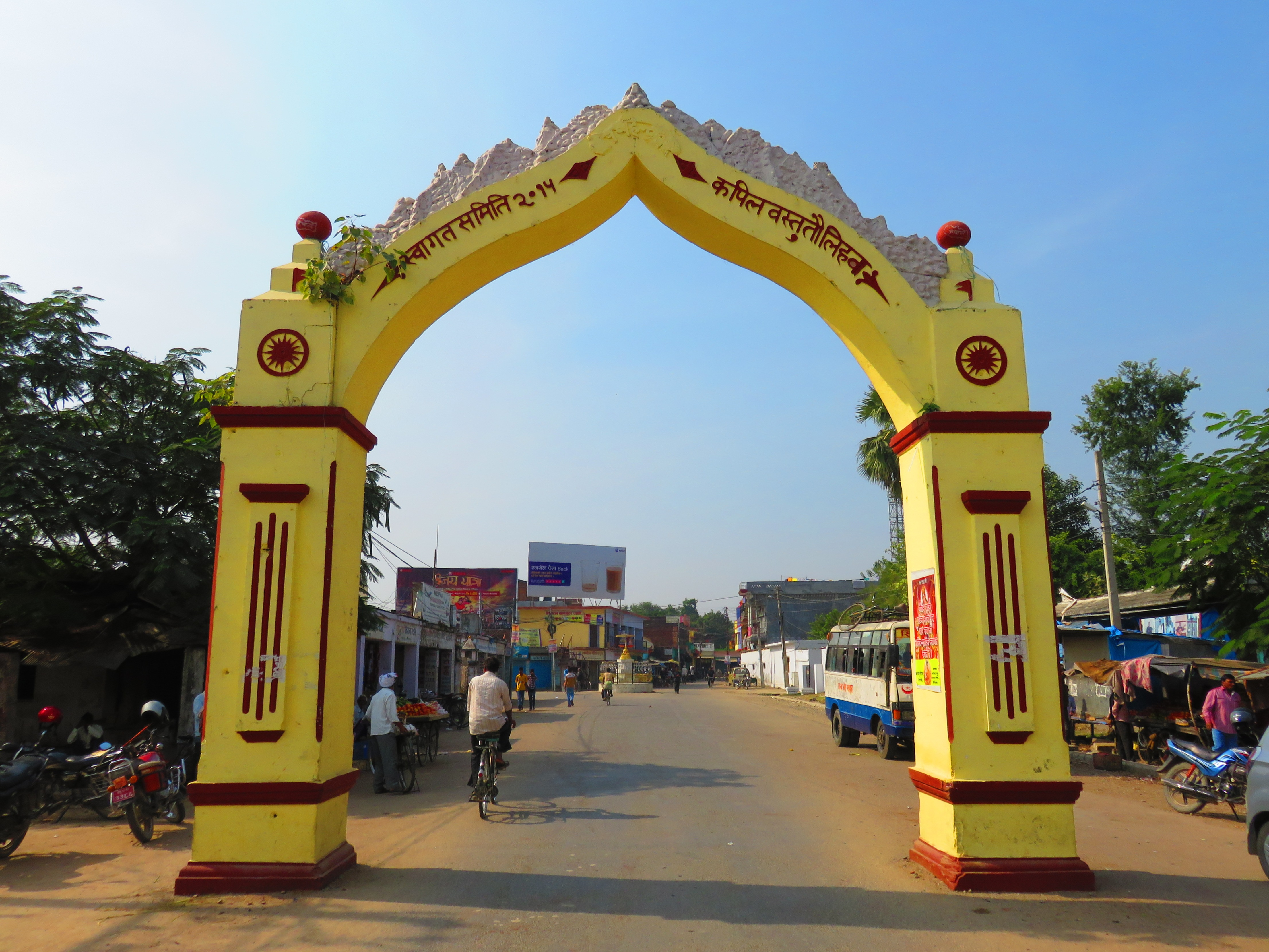 Entrance gate to Kapilavastu city (formerly Taulihawa), Kapilvastu District, Nepal